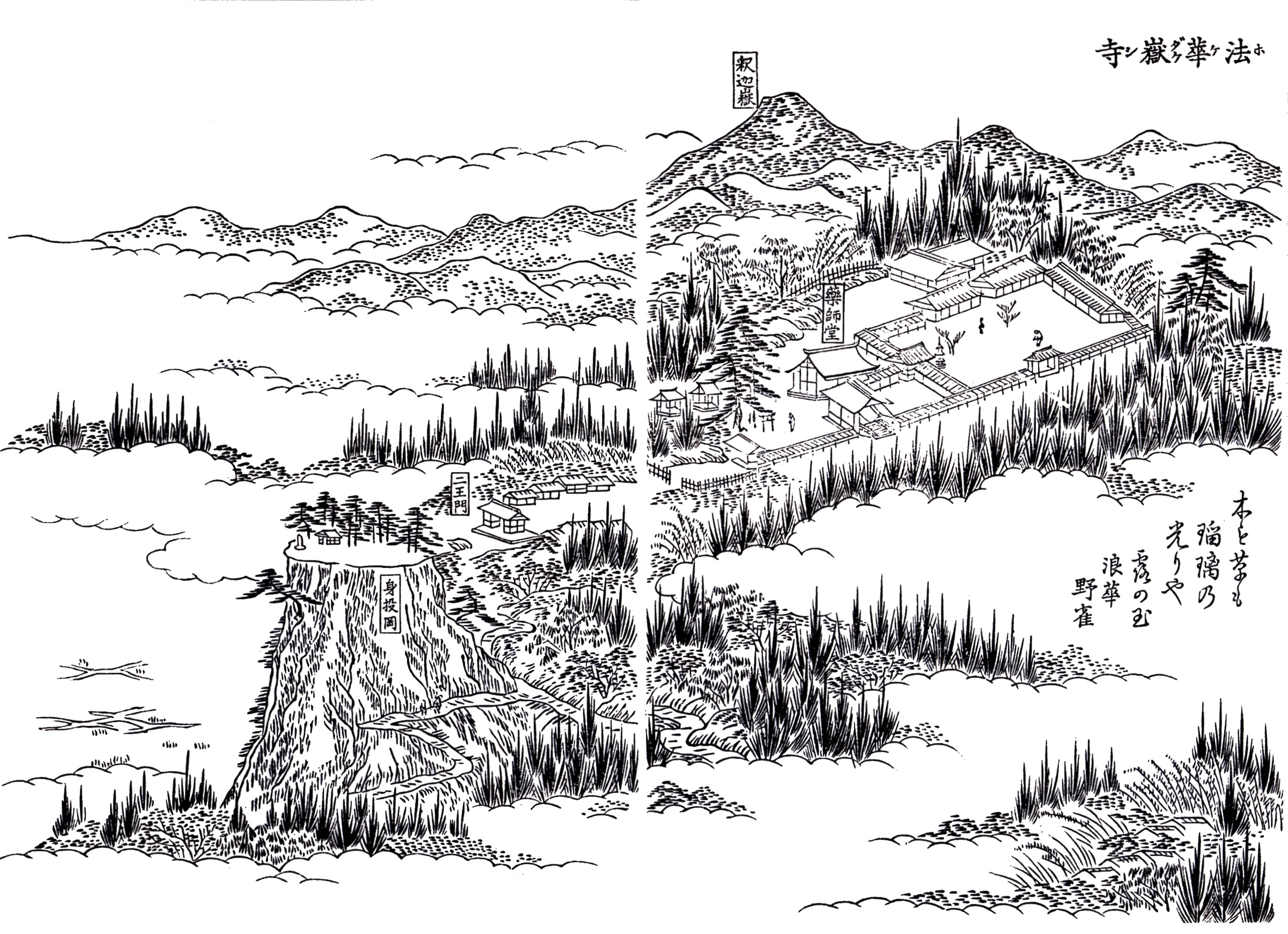 Hokedake-Yakushiji Temple in the 19th Century (Kunitomi Town, Miyazaki, Japan)